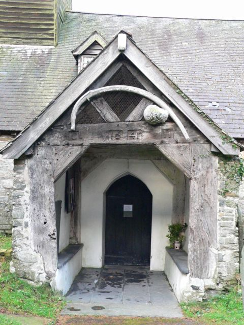 Mallwyd Church Porch. Carved in the oak beams is the date 1641. Above the date are the remains of two very large bones, some say whale bones others describe them as tusks. The curiosity is they were unearthed locally.